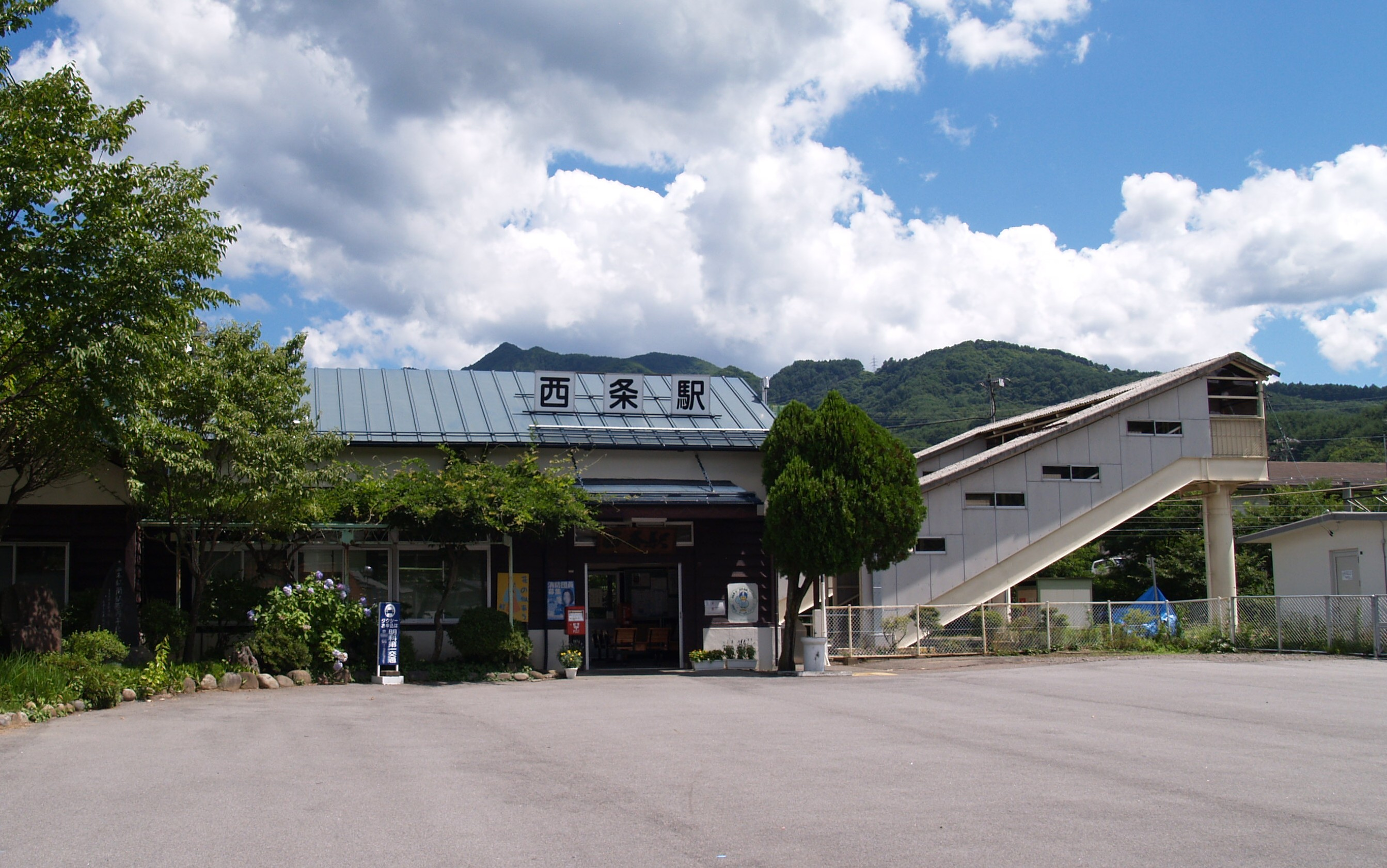 Nishijo Station on Shinonoi Line